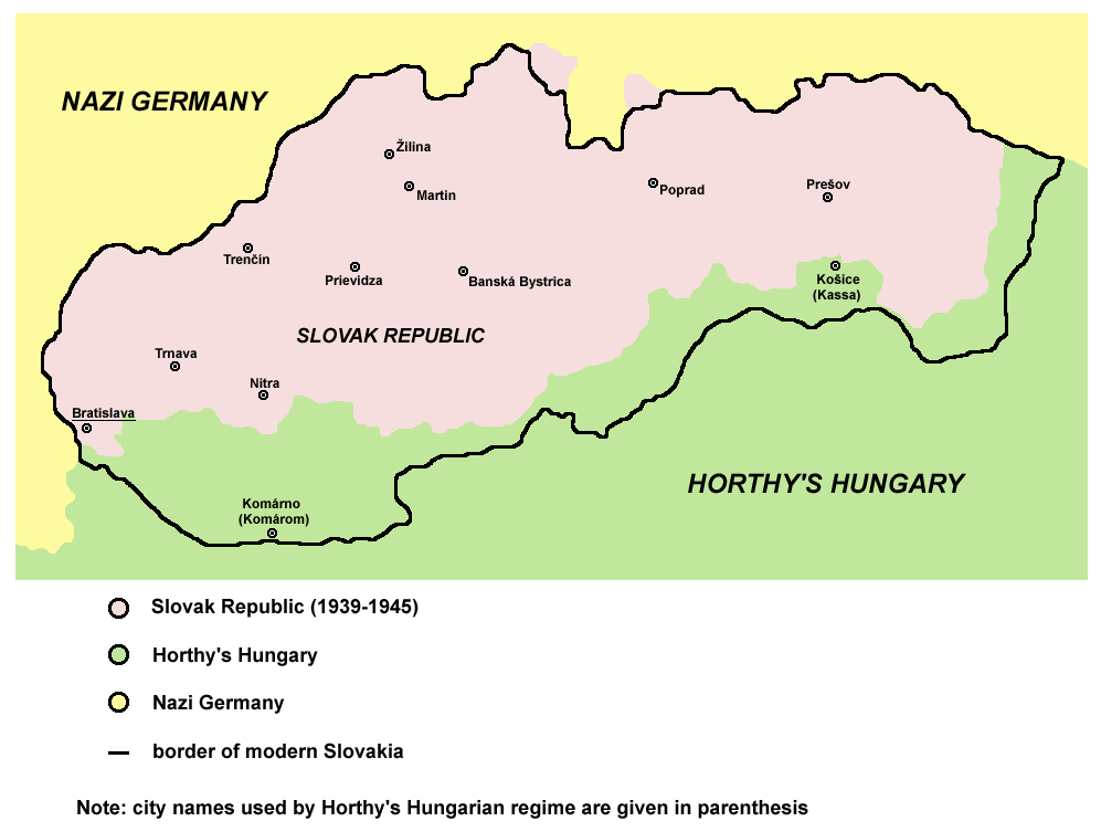 historic map of Slovak Republic (1939-1945)